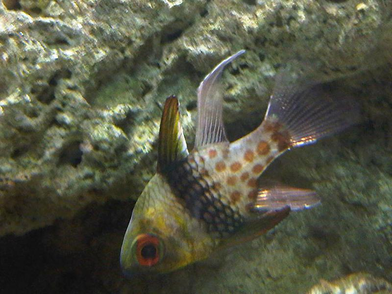 Sphaeramia nematoptera at the Kew Gardens in Marine Display, England.